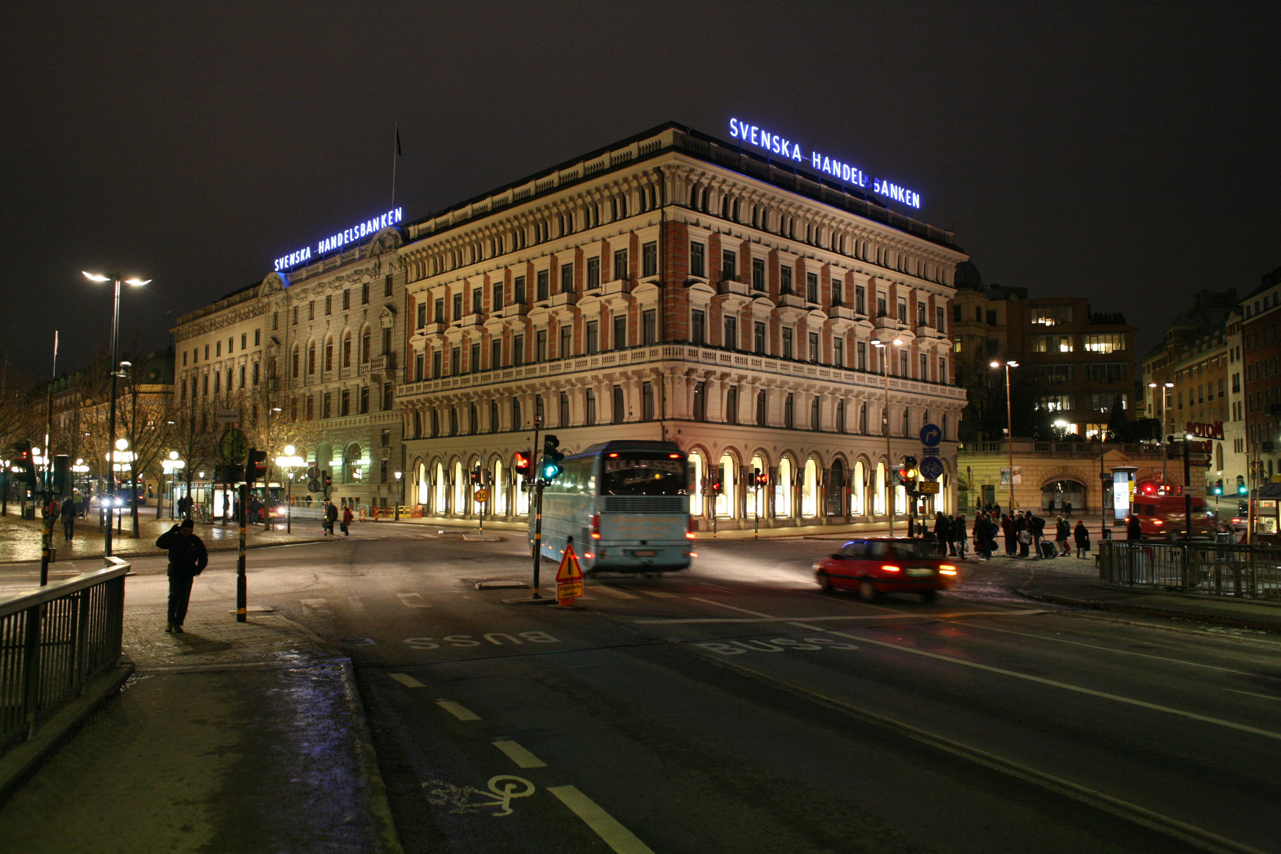 The headquarters of Svenska Handelsbanken in Kungsträdgården in Stockholm at night